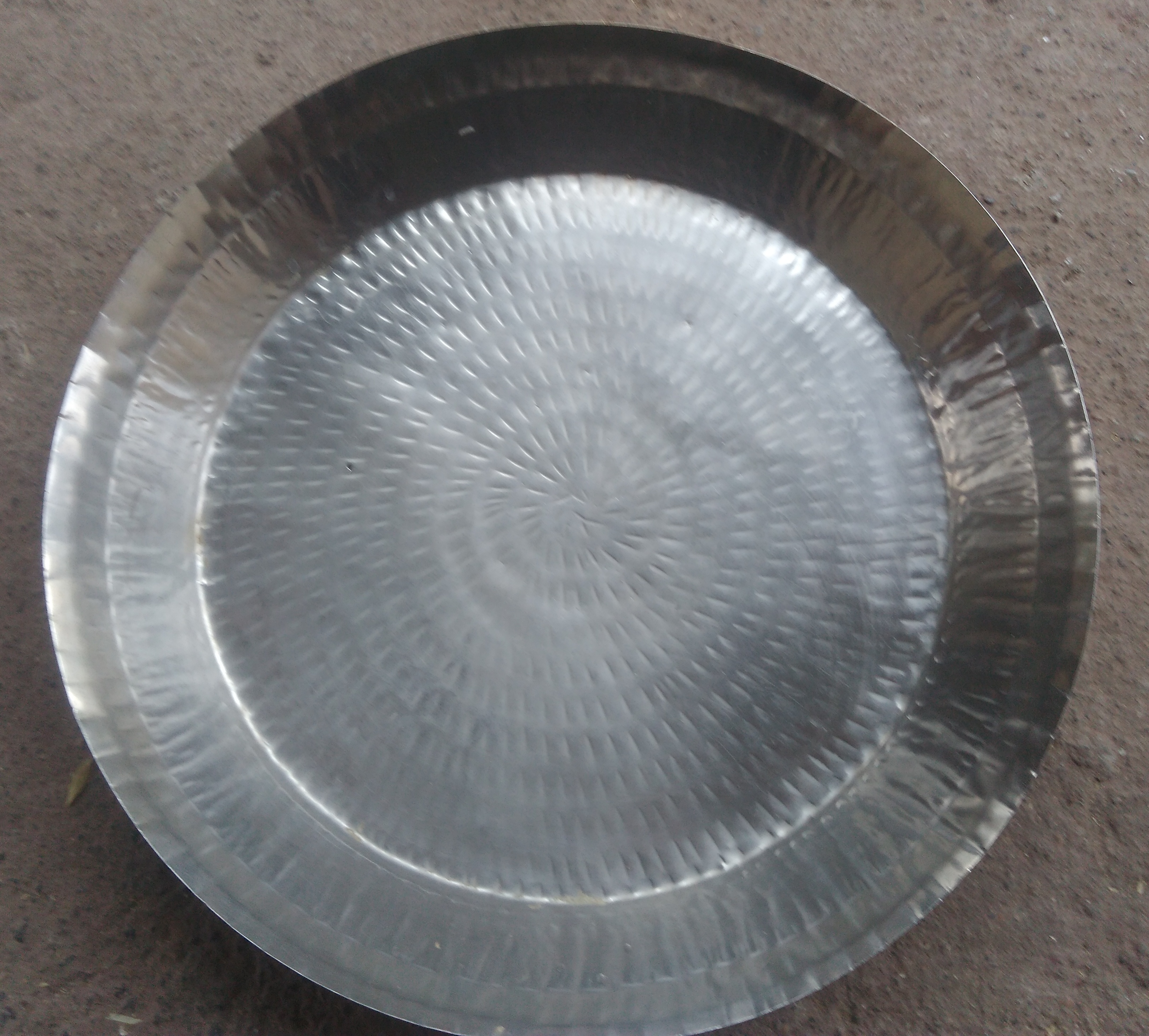 पाकसाधने - परात